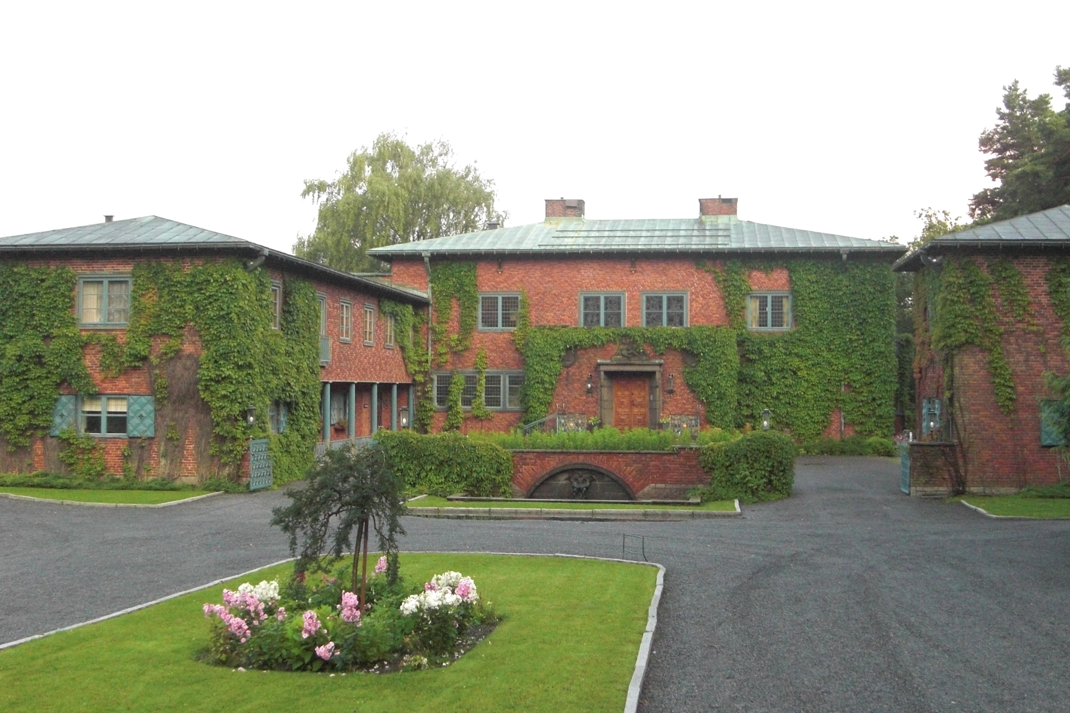 Villa Midtås, the home of Anders Jahre, Sandefjord county, Vestfold, Norway